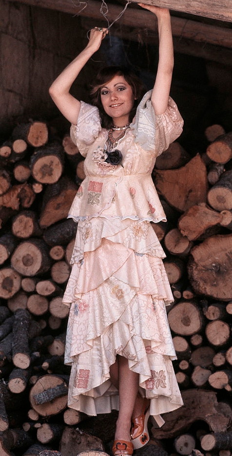 Italian singer Mia Martini (Domenica Berté) posing smiling and with raised arms. 1973